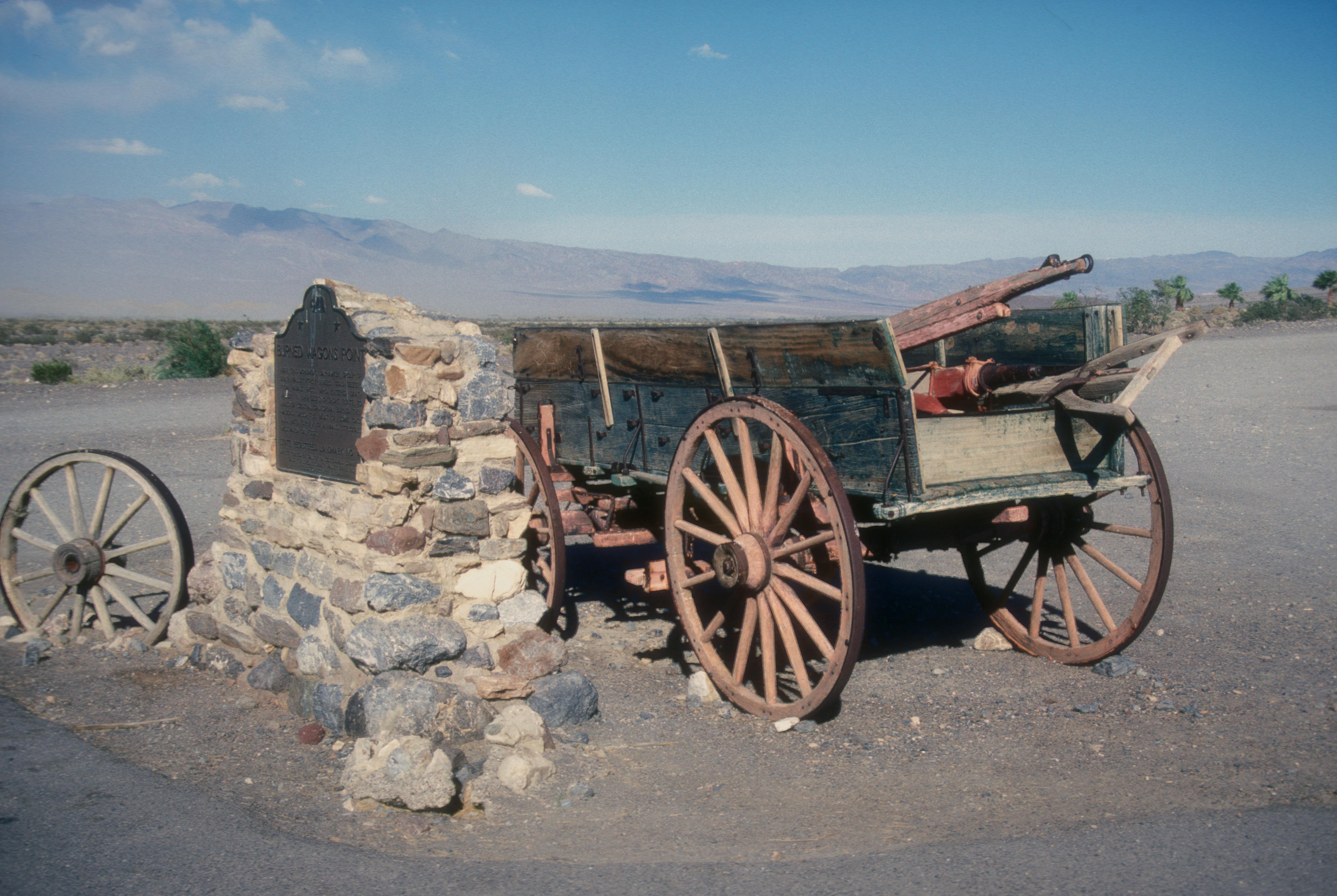 BURNED WAGON MONUMENT - SITE WHERE THE JAYHAWKERS BURNT THEIR WAGONS TO LEAVE DEATH VALLEY